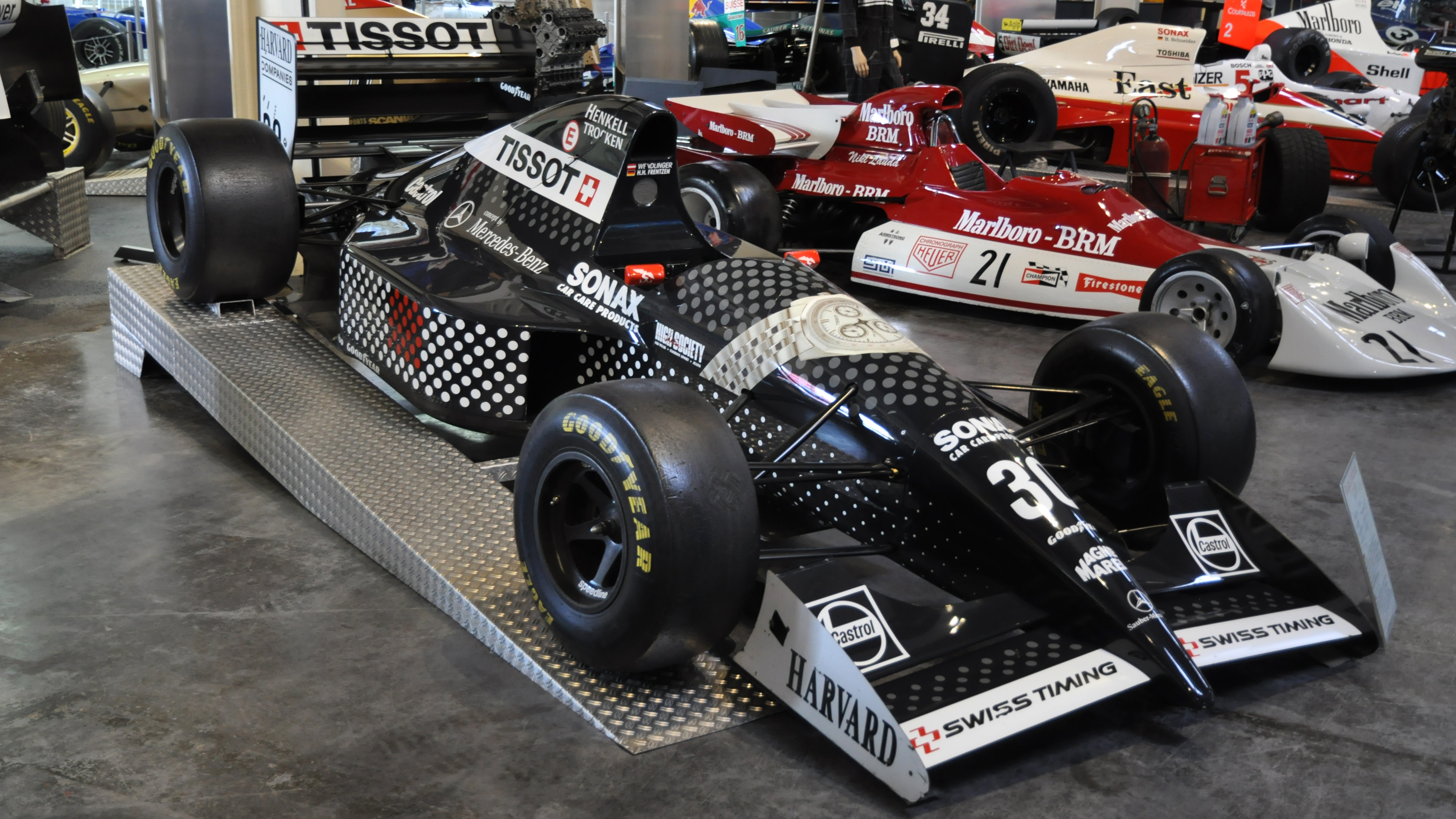 Sauber-Mercedes C13 Formel 1 (1994) at the Auto und Technik Museum Sinsheim